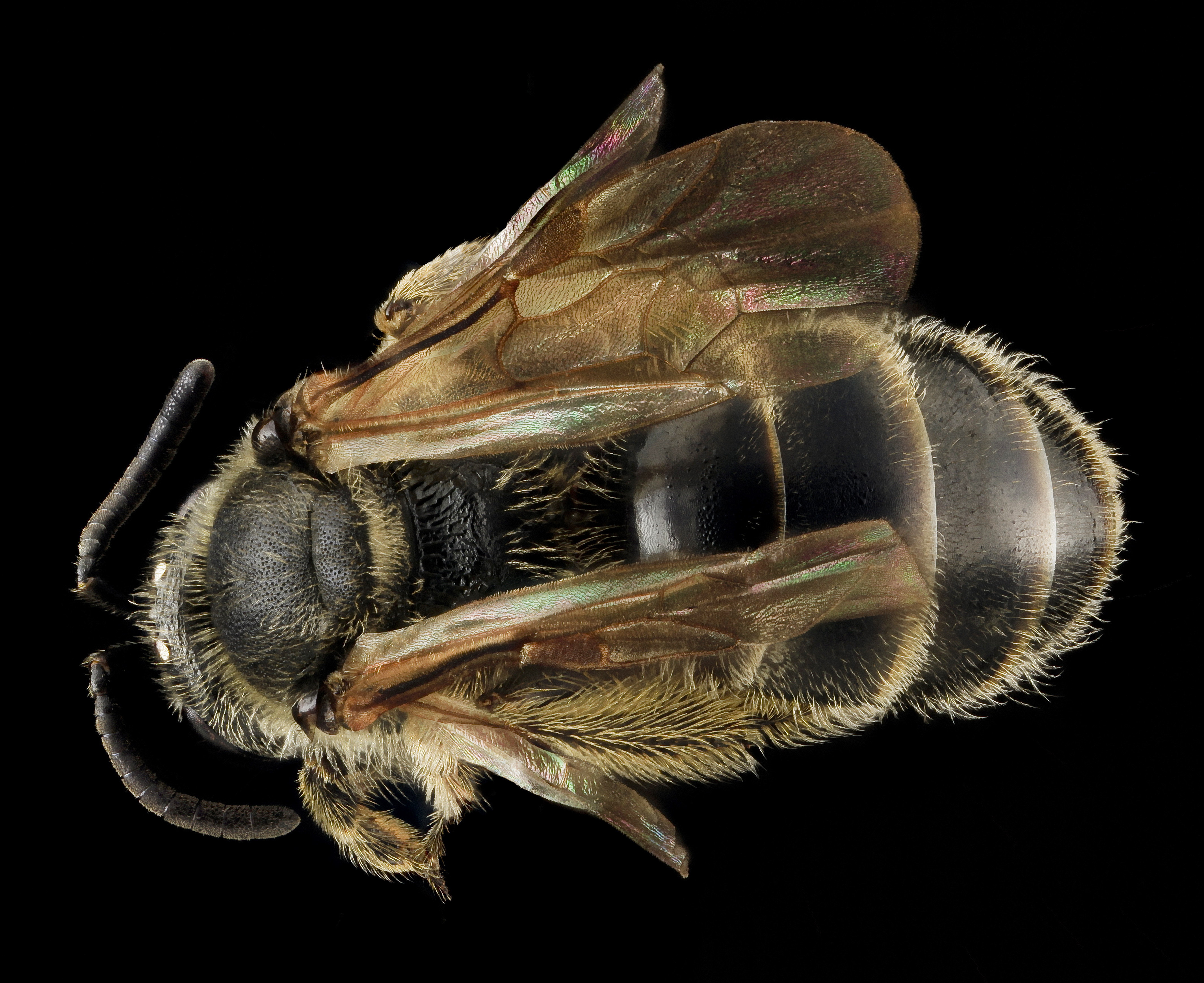 Lasioglossum quebecense, a common spring black Lasioglossum collected by Tim McMahon, Photographed by Brooke Alexander, and Photoshoped by Ann Simpkins